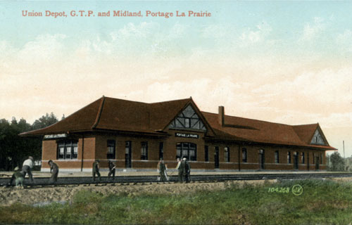 GTP and Midland Railway Union station.